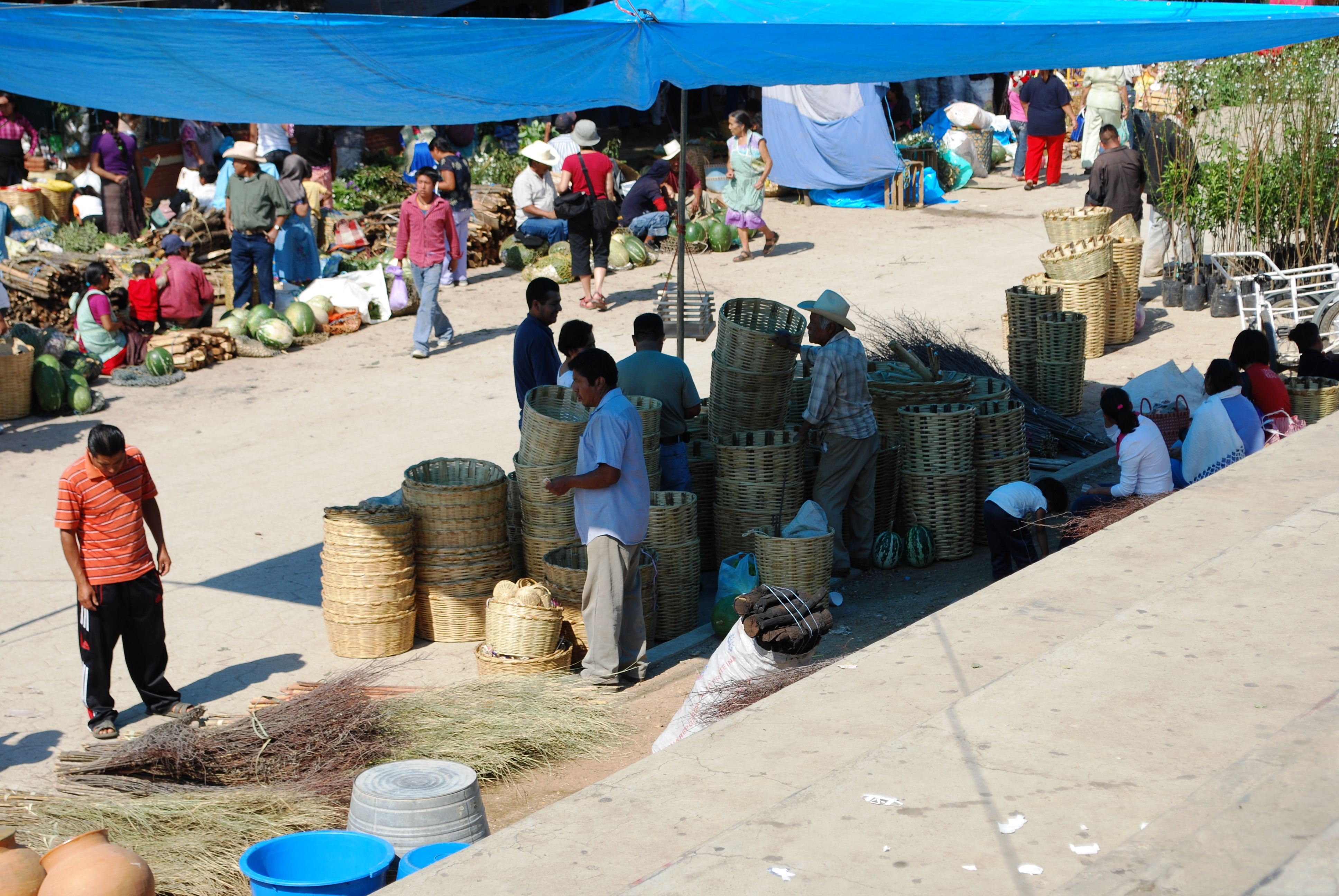 Baskets for sale at the Thursday weekly market in Zaachila, Oaxaca, Mexico